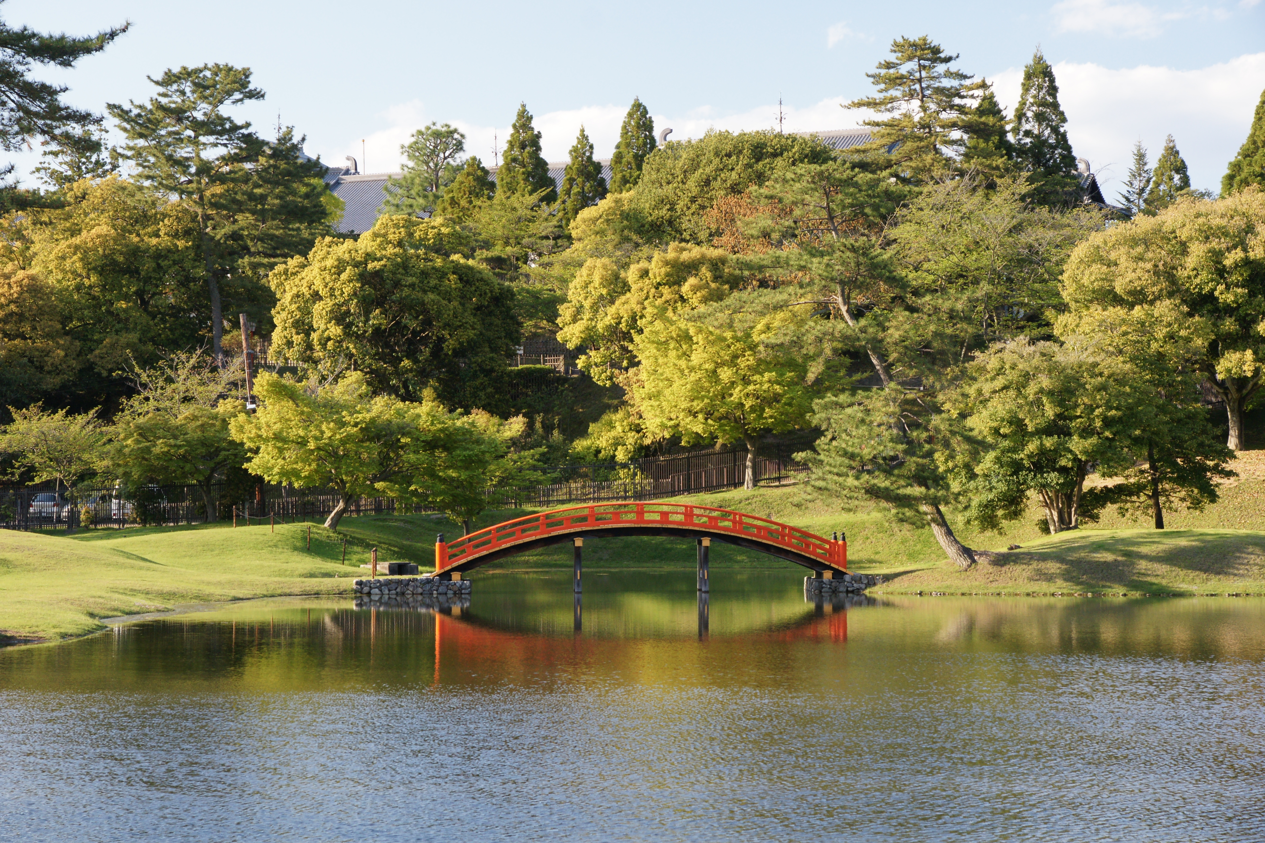 Kyu-Daijoin-teien in Nara, Nara prefecture, Japan, on time in evening.